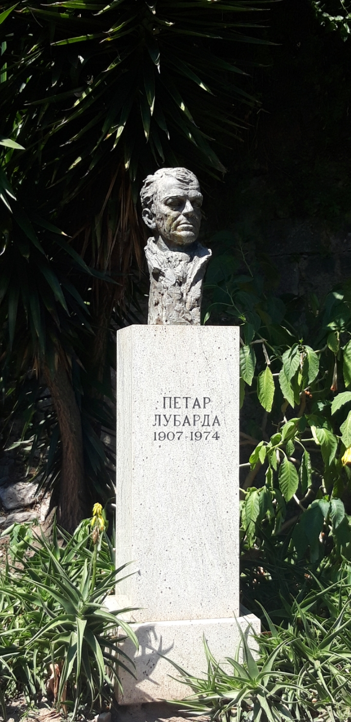 Petar Lubarda bust in Herceg Novi